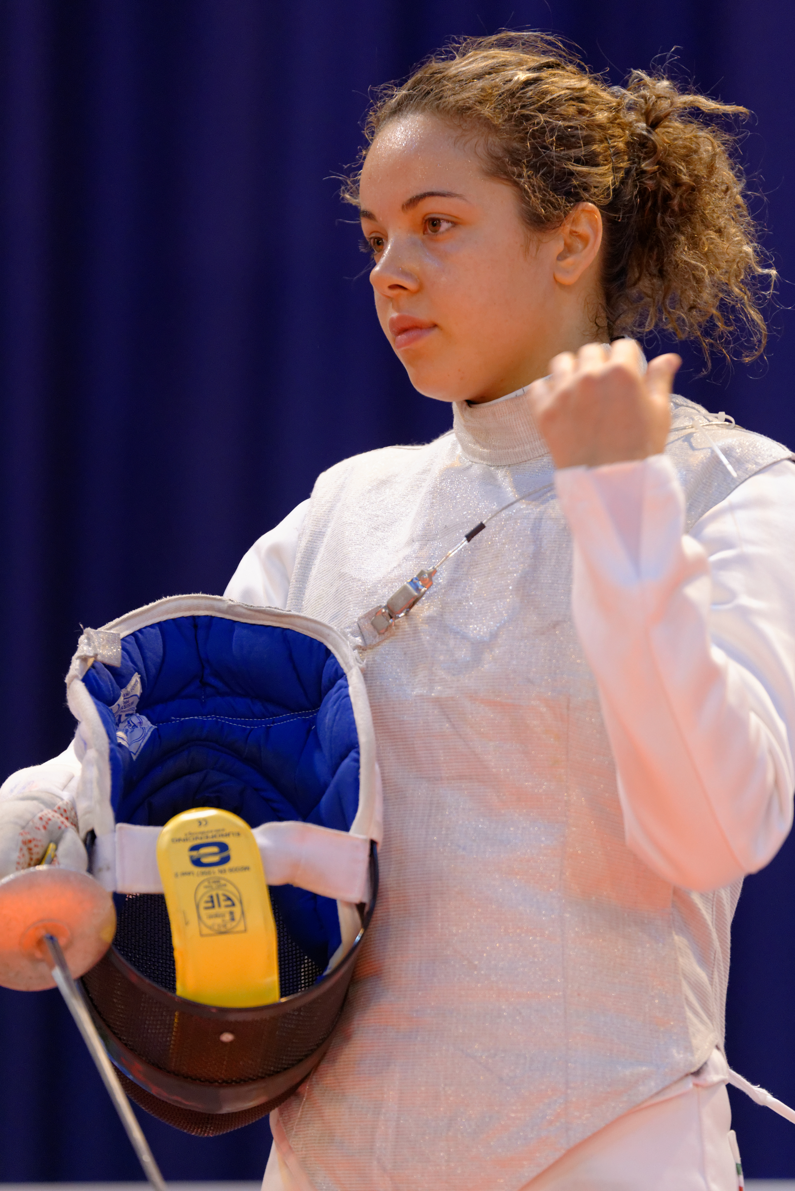 Italy's Alice Volpi at the Saint-Maur Women's Foil World Cup.